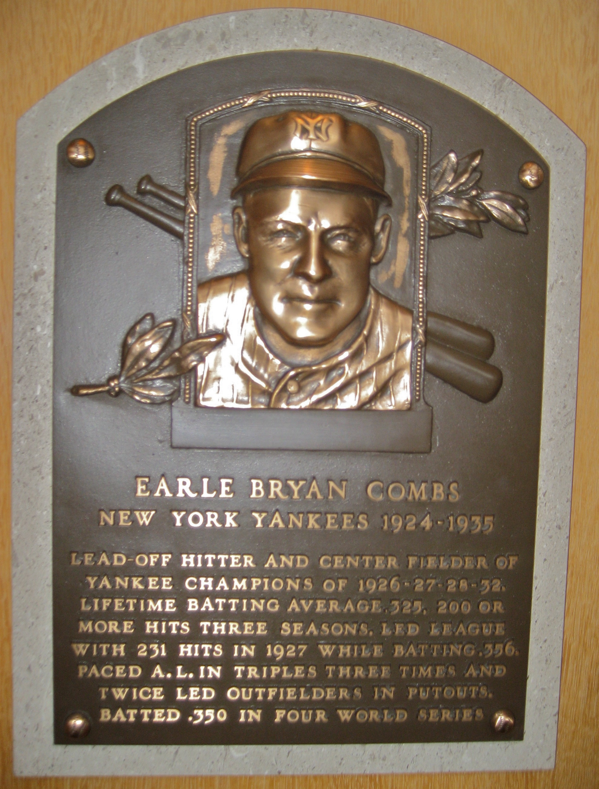 Plaque for New York Yankees Center Fielder Earle Combs at the Baseball Hall of Fame in Cooperstown, New York.